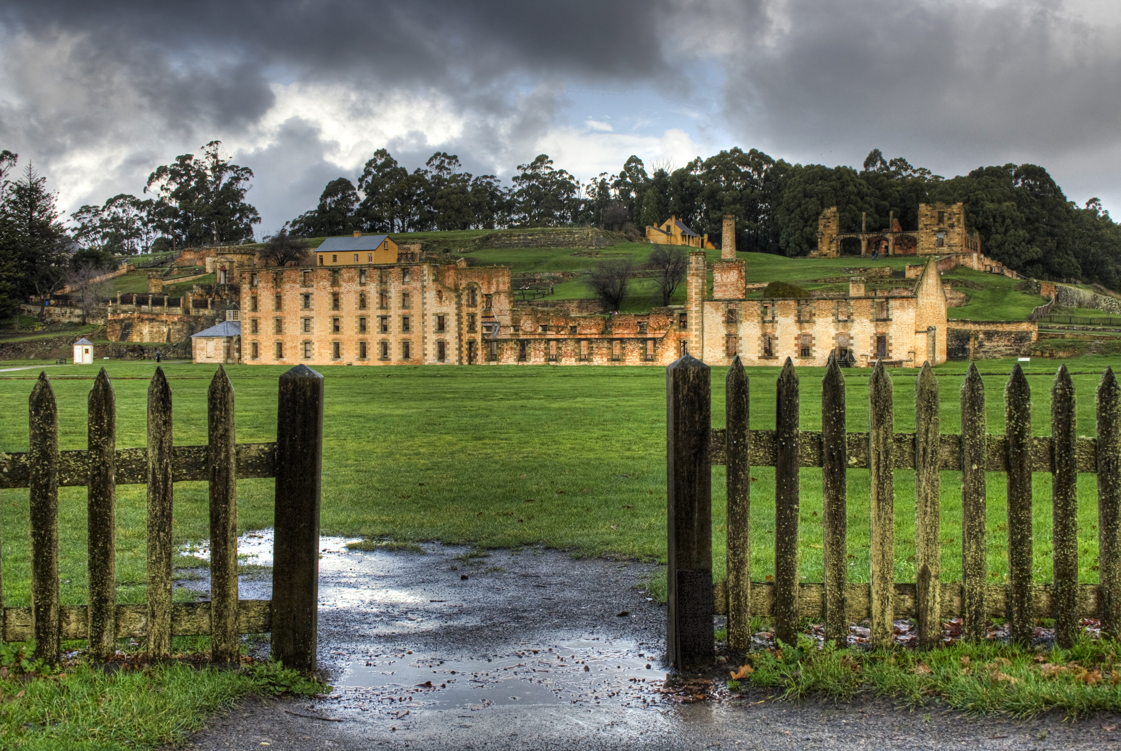 Port Arthur Penitentiary and the surrounds